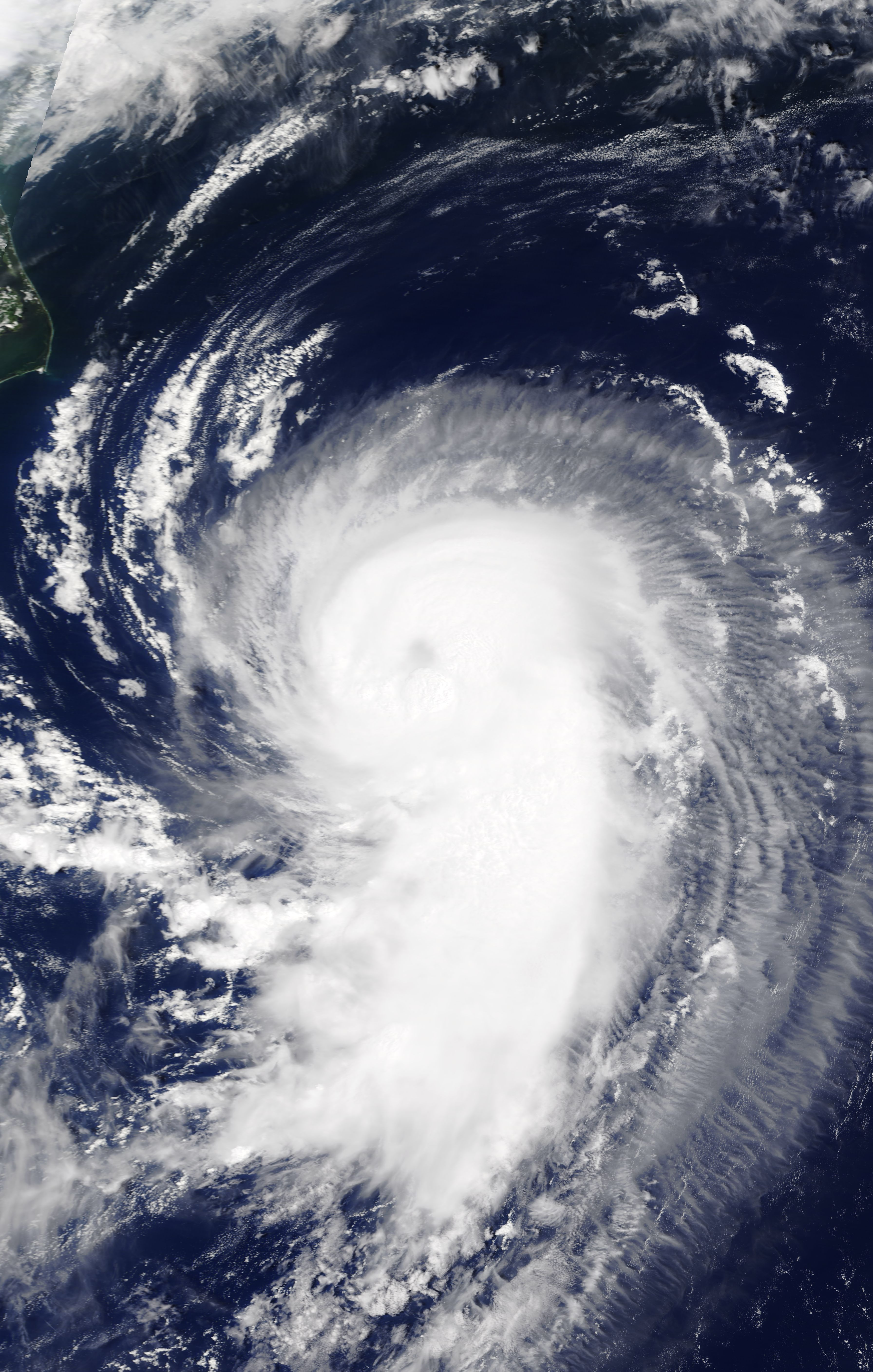 A satellite image of Hurricane Gert over the western Atlantic Ocean, off the east coast of the United States. Sustained winds are 65 knots.